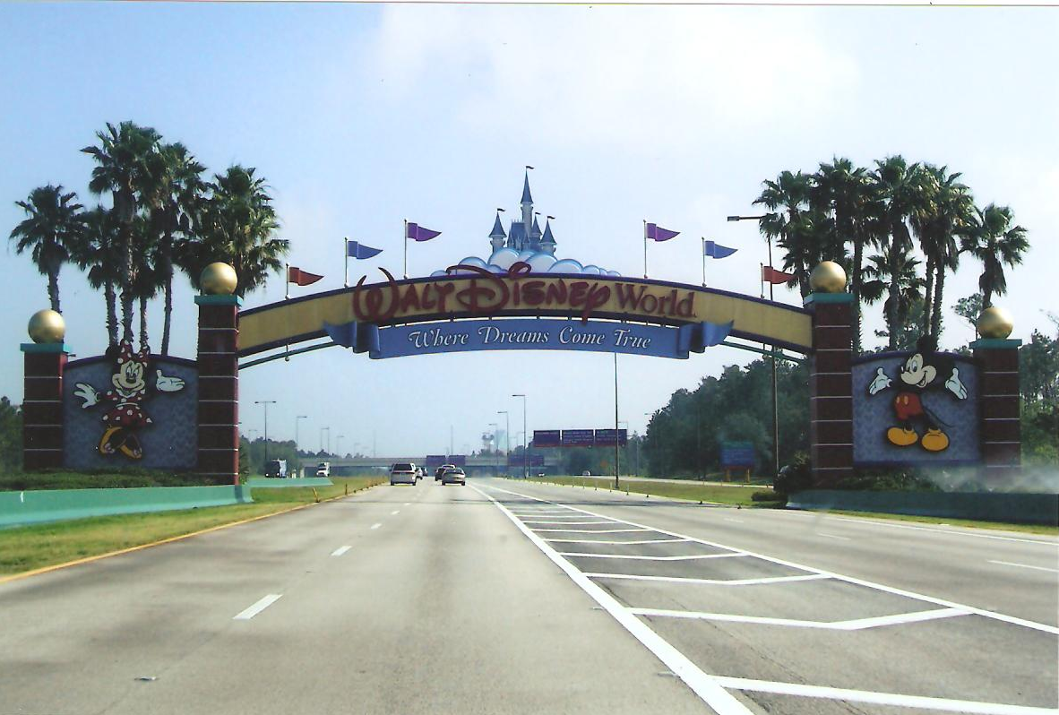 This is a picture of the main entrance to Walt Disney World located in Florida, USA.